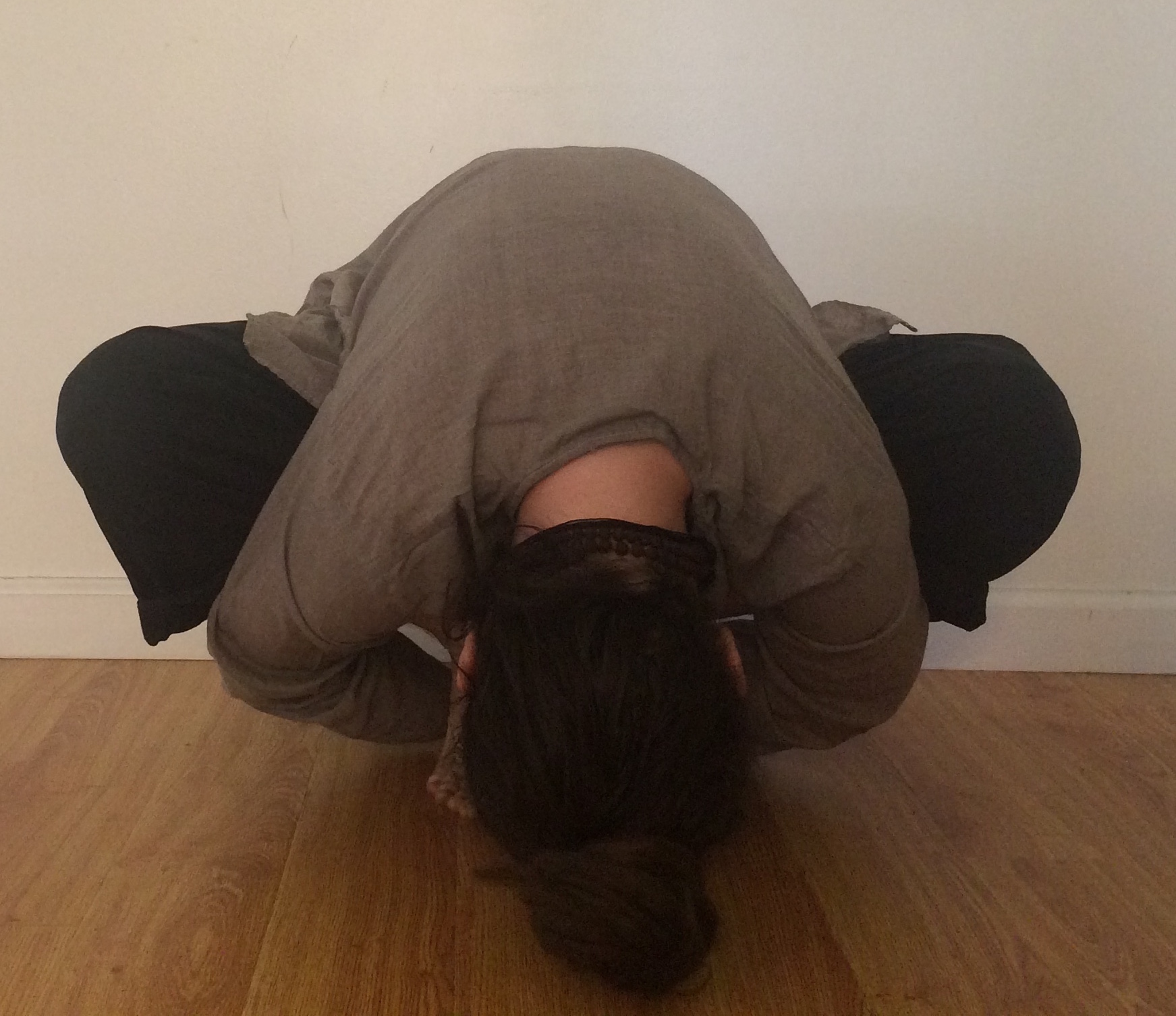 Yoga asana 'mālāsana' viewed from the front.